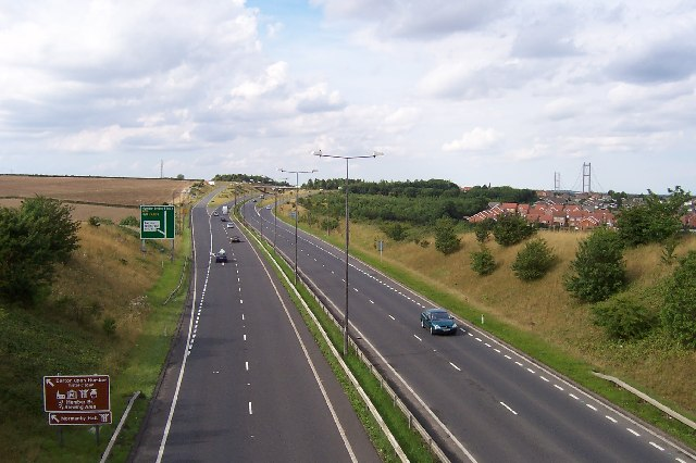 A15 exit to Barton-upon-Humber, Lincolnshire, England.Picture taken from the Horkstow Road bridge over the A15 looking North towards the exit to the A1077. The Humber Bridge can be seen in the background.